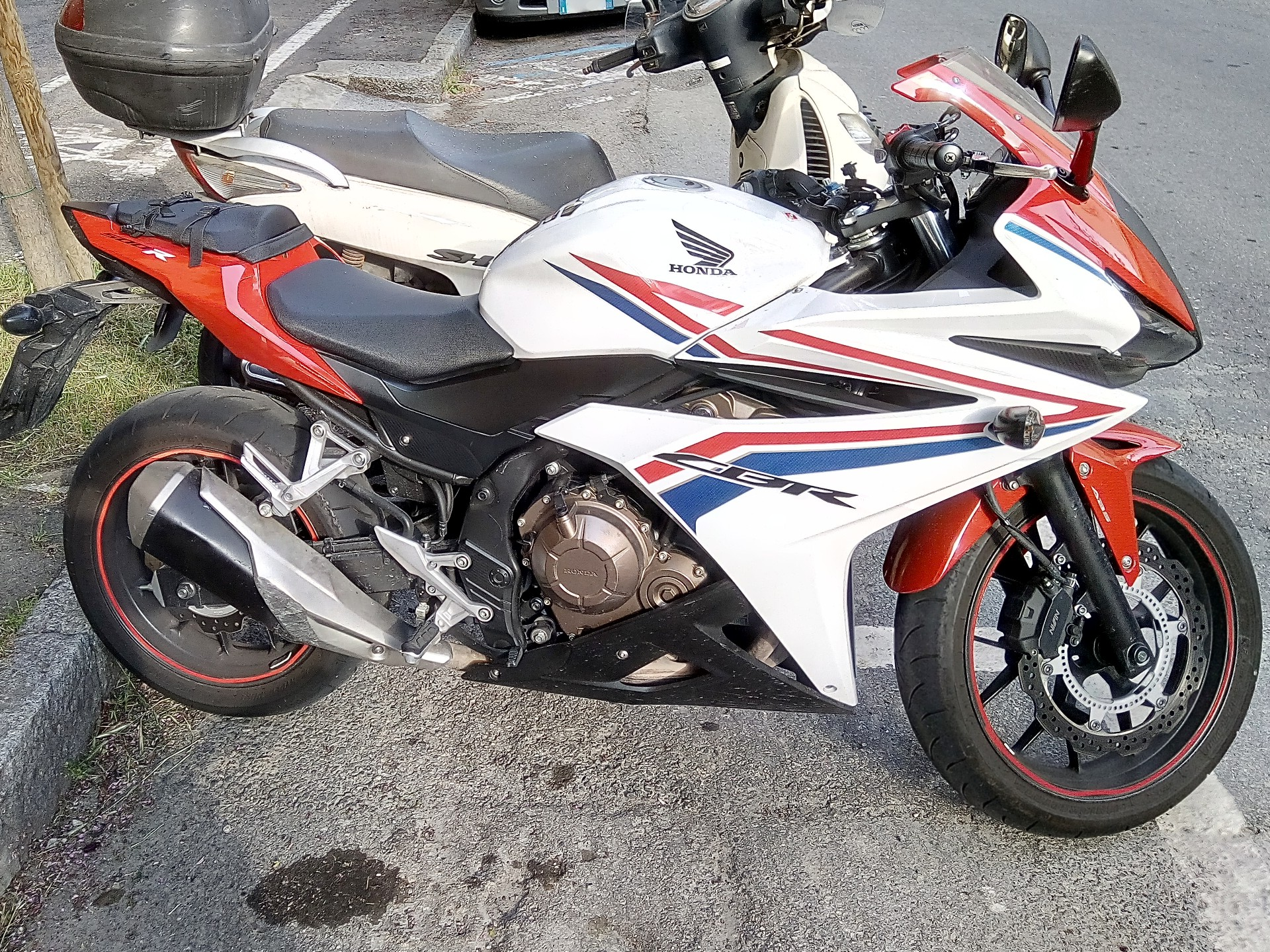 Honda CBR500R 2017